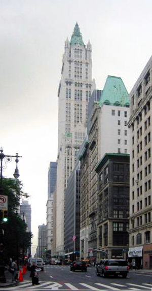 Photo of Woolworth Building at New York City (taken June 20, 2003 by djmutex), herewith licensed under GFDL.